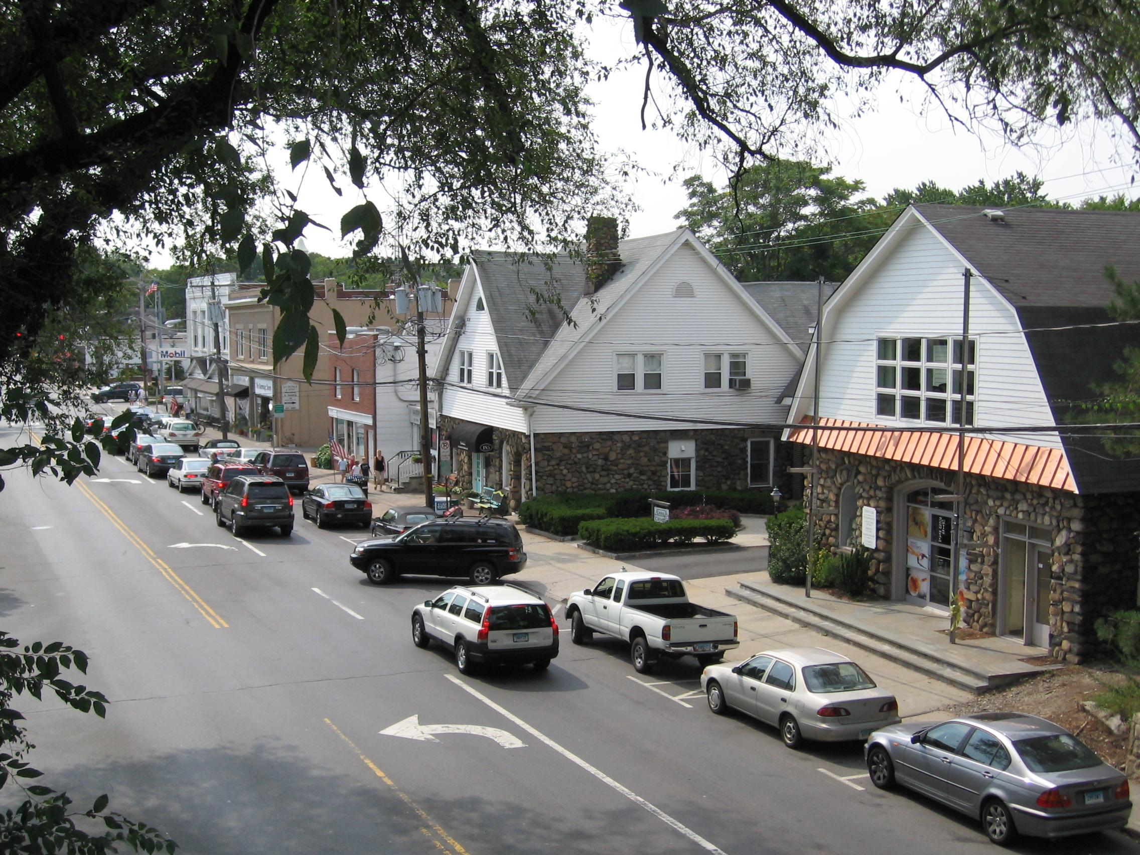 Downtown Old Greenwich section of Greenwich, Connecticut as seen from railroad bridge at the Old Greenwich railroad station, looking south at the western side of Sound Beach Avenue.